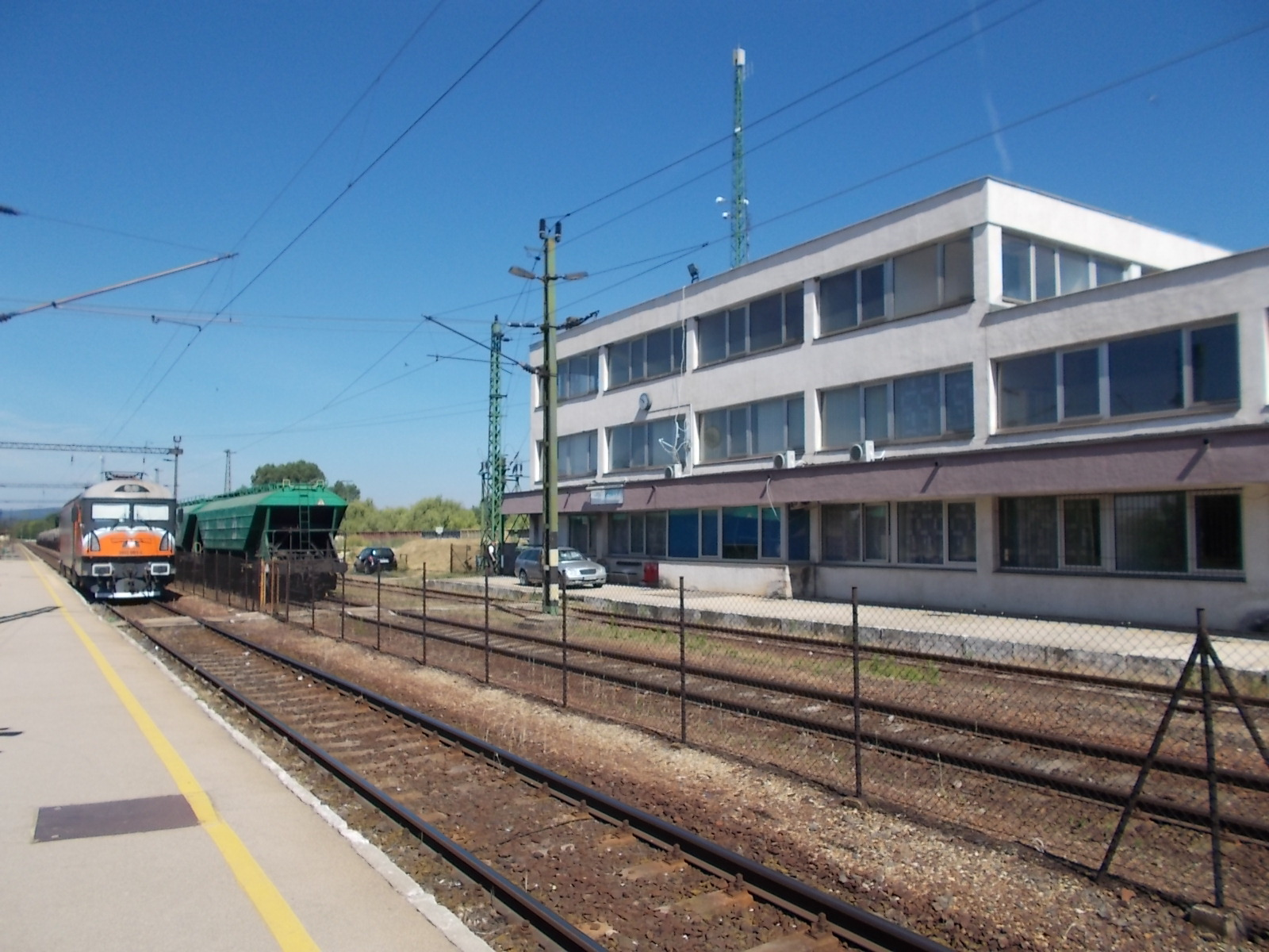 Bicske railway station. A station of the Budapest–Hegyeshalom–Rajka railway line. - Bicske, Fejér County, Hungary.